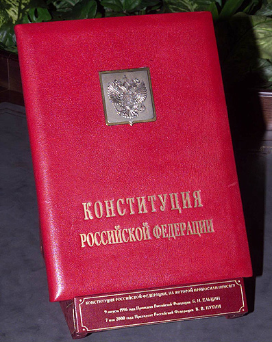 Presidential edition of the Russian Constitution.